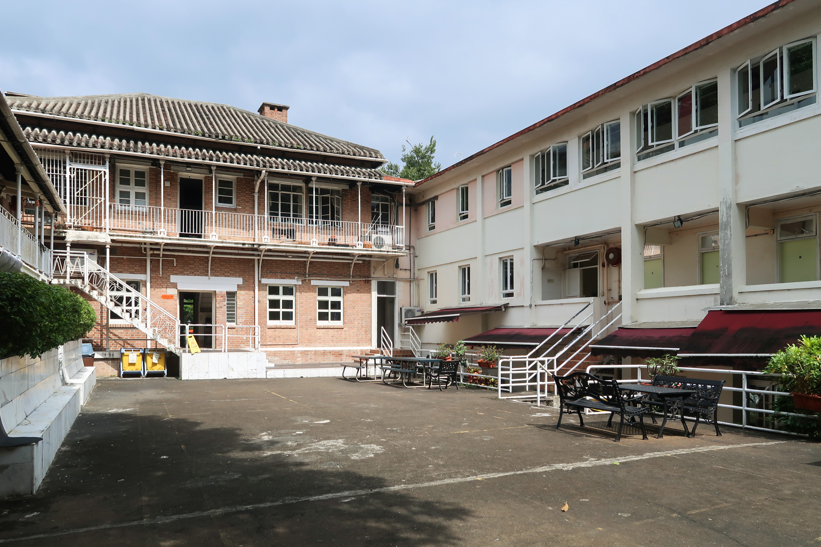 High Rock Christian Camp